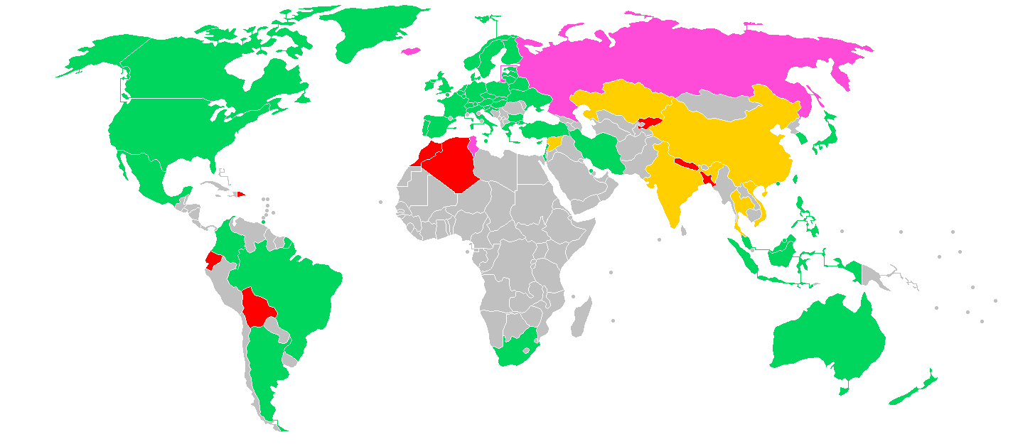 Legal status of bitcoin permissive (it's legal to use bitcoin) contentious (some restrictions on legal usage of bitcoin) contentious (interpretation of old laws, but bitcoin isn't prohibited directly) hostile (full or partial prohibition) no data